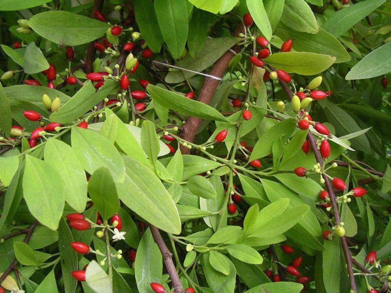 Seed-grown plant of Erythroxylum novogranatense var. Novogranatense. This plant is about 5 years old and 2m tall.